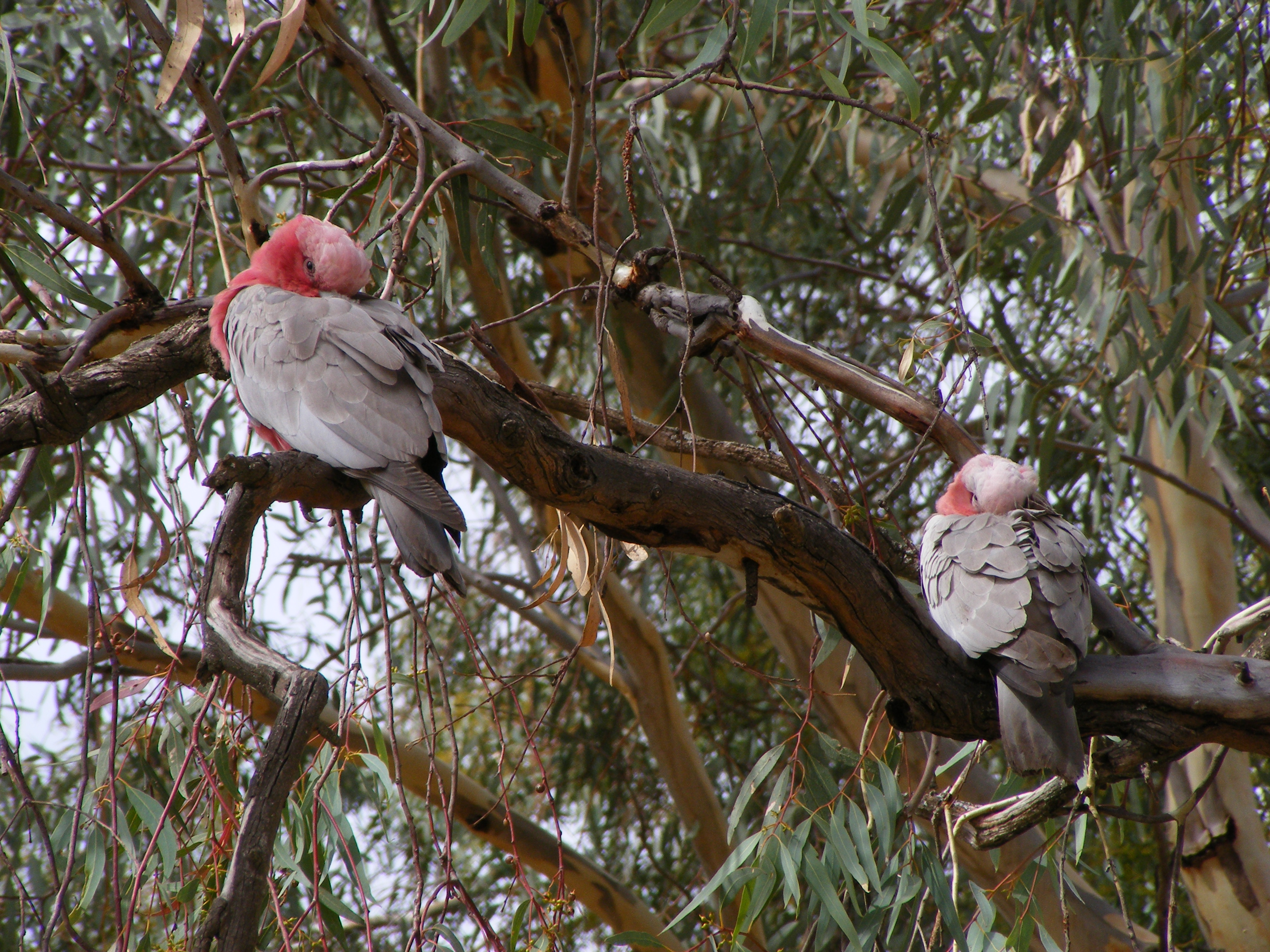 Pair of Galahs (Eolophus roseicapilla) attempting to sleep